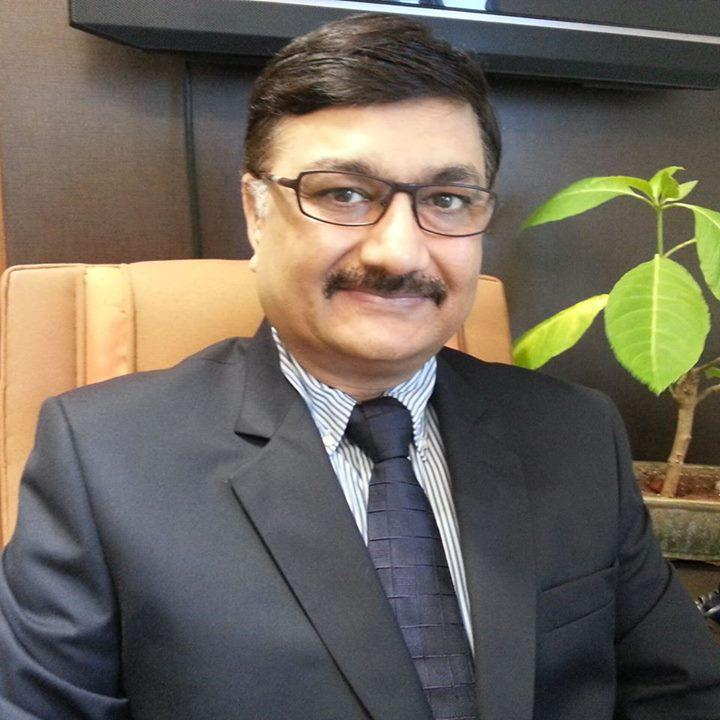 Close up